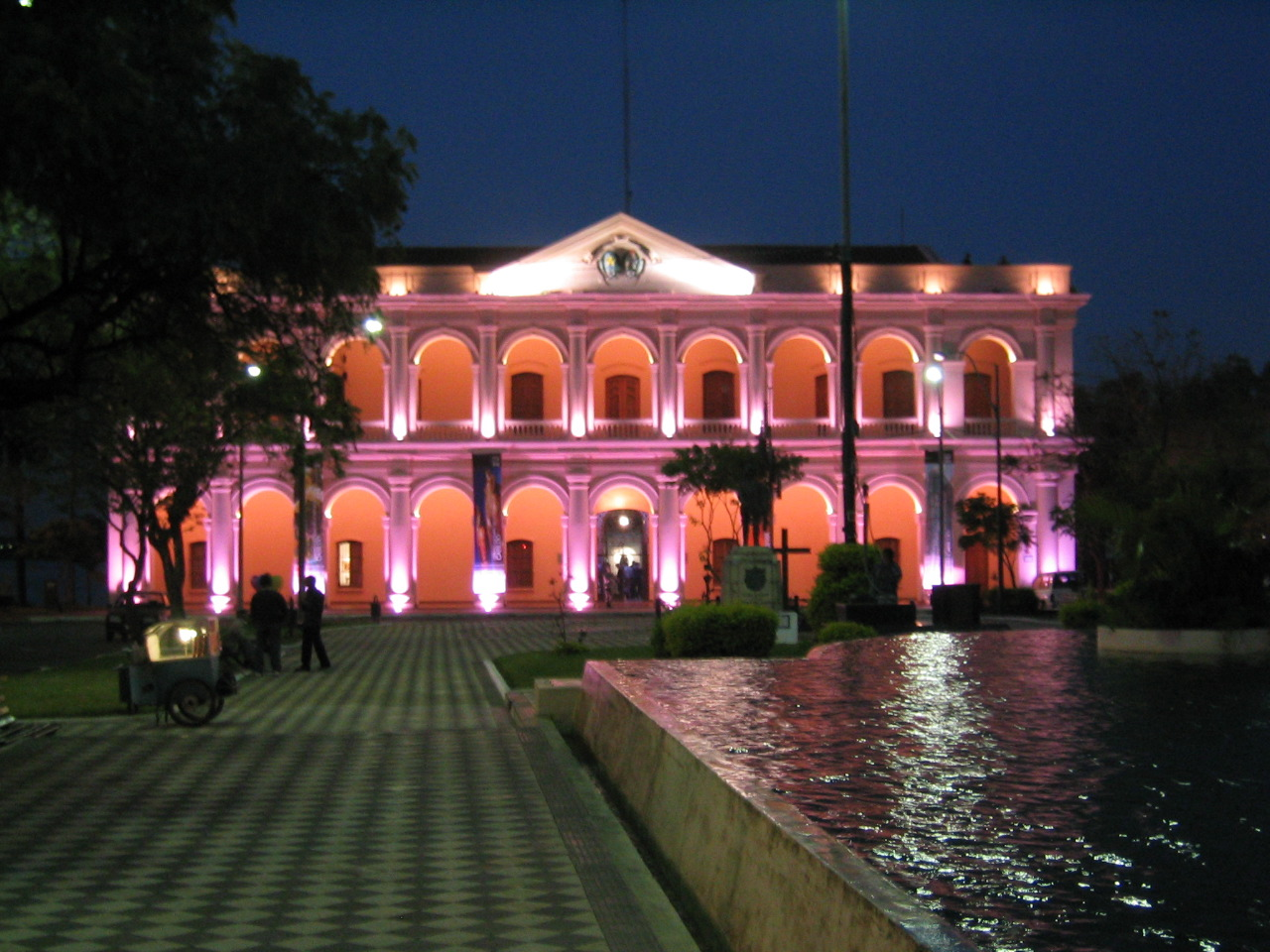 Edificio del Congreso Nacional de Paraguay. From above with Google maps Photo used here by my friend Stephanie Curry